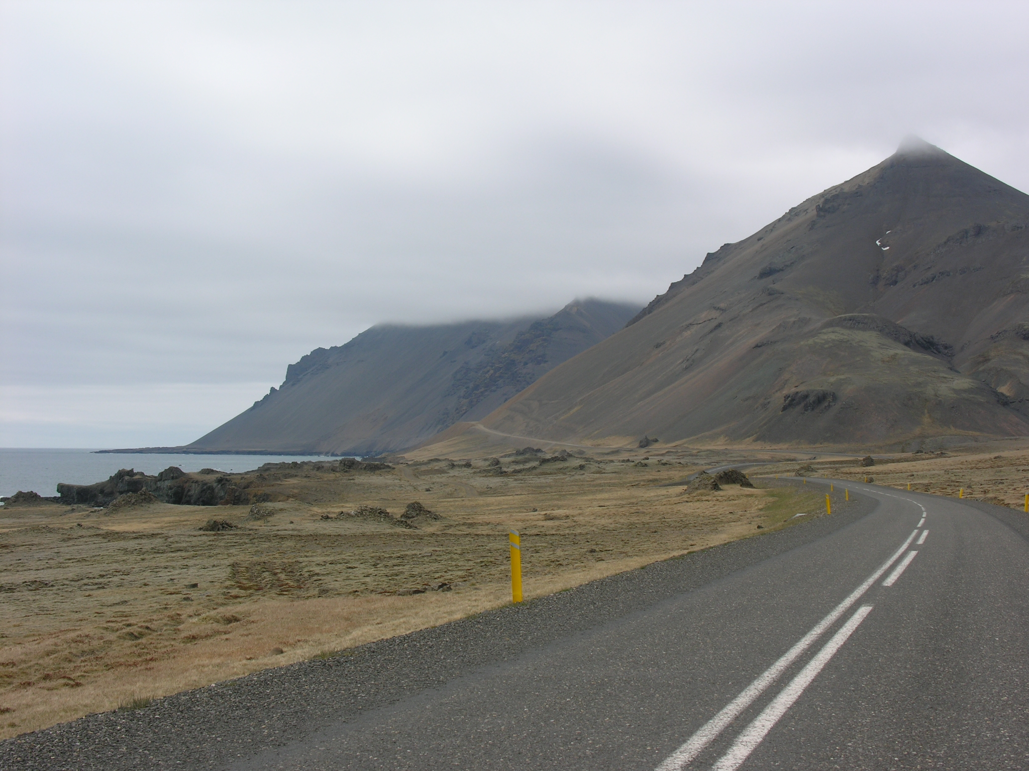 Iceland , views along road Road 1 in Iceland (Hringvegur). Picture is geocoded manually; if someone can contribute to the accuracy, please do so.